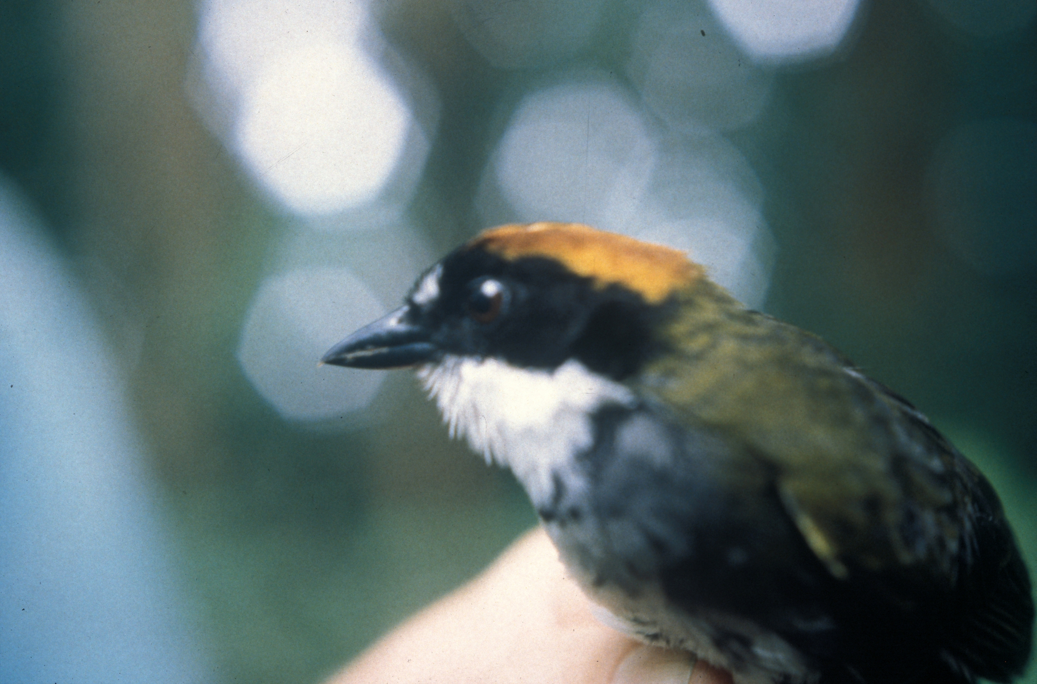 Chestnut-capped Brush-Finch, Buarremon brunneinucha, in Ecuador